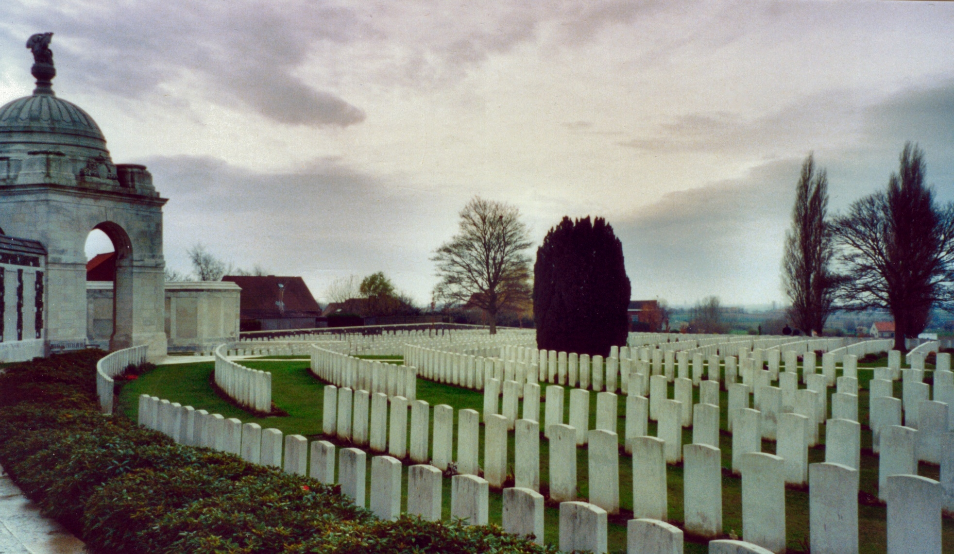 The Tynecot memorial to the missing and the cemetery of the dead of World War I, Passendale, Flanders, Belgium. Photograph by User:Redvers originally from wikipedia, now transferred to Commons. Note that the photograph has been altered by the author since the original upload and that the licence status has changed from Own Work GDFL to the more explicitly free Own Work Public Domain All Rights Released.